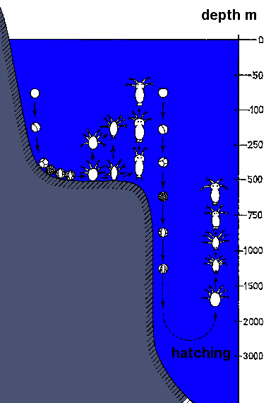 krill hatching drawing Uwe Kils after Marr gfdl-self